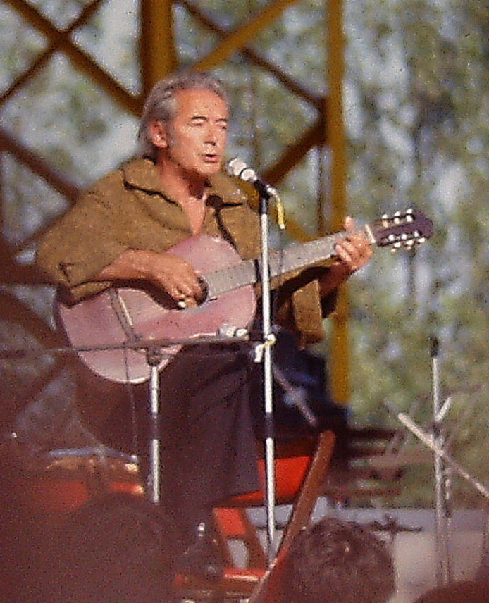 Félix Leclerc